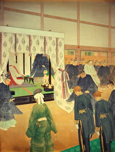 The Emperor Receives Foreign Ministers, by Hiroshima Kōho, Meiji Memorial Picture Gallery, Tokyo, Japan. The Emperor receives Dirk de Graeff van Polsbroek; to the left and right of the imperial dais are Prince Yamashina Akira and Iwakura Tomomi